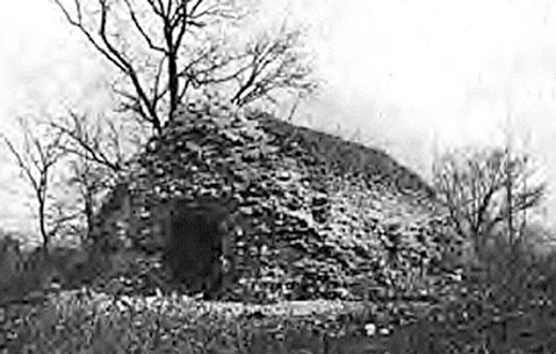 Remains of Old Fort Chartres (Illinois Historical Site)